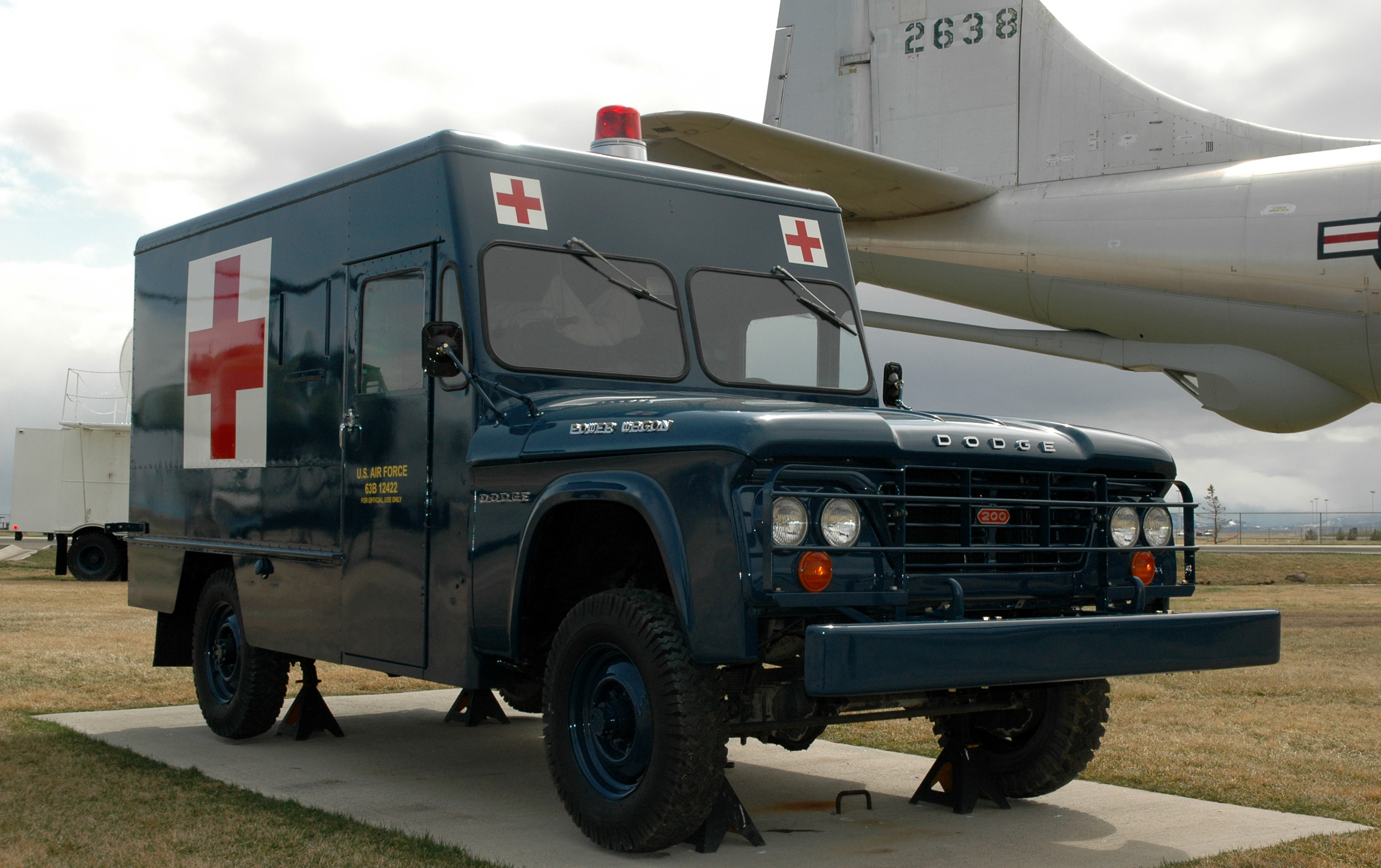 A 1963 Dodge Power-Wagon response ambulance is once again on display at the Malmstrom Museum after the 341st Logistics Readiness Squadron allied trades shop moved it back into position April 10, following more than 160 man hours of disassembly, sanding and painting. (U.S. Air Force photo/Senior Airman Dillon White)